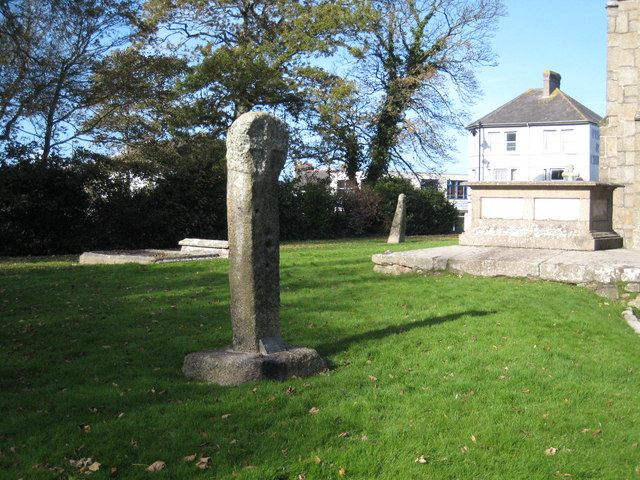 Two ancient crosses in the grounds of Camborne Parish Church, near to Camborne, Cornwall, Great Britain.